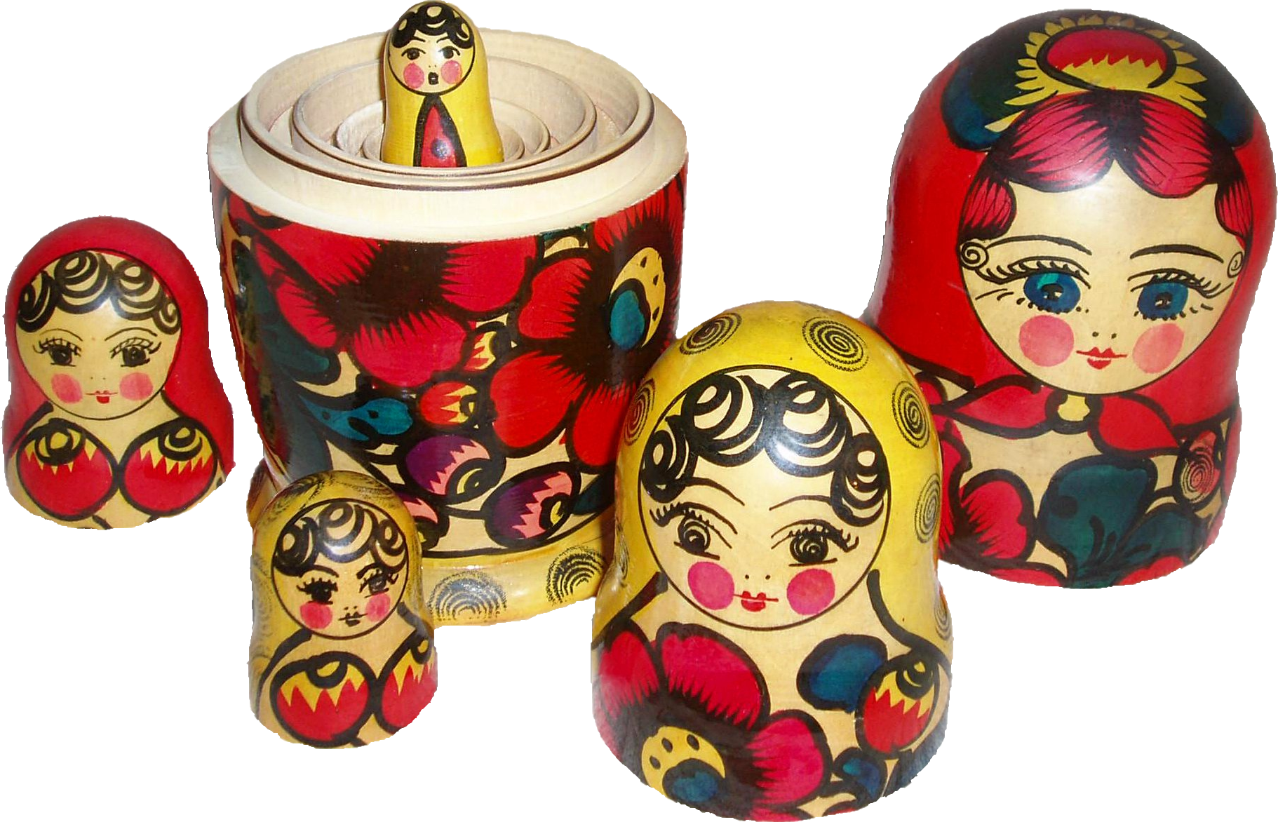 A derivative (removed background) of GFDL image by user Fanghong.